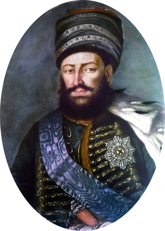 Heraclius II of Eastern Georgia (r. 1720–1798)